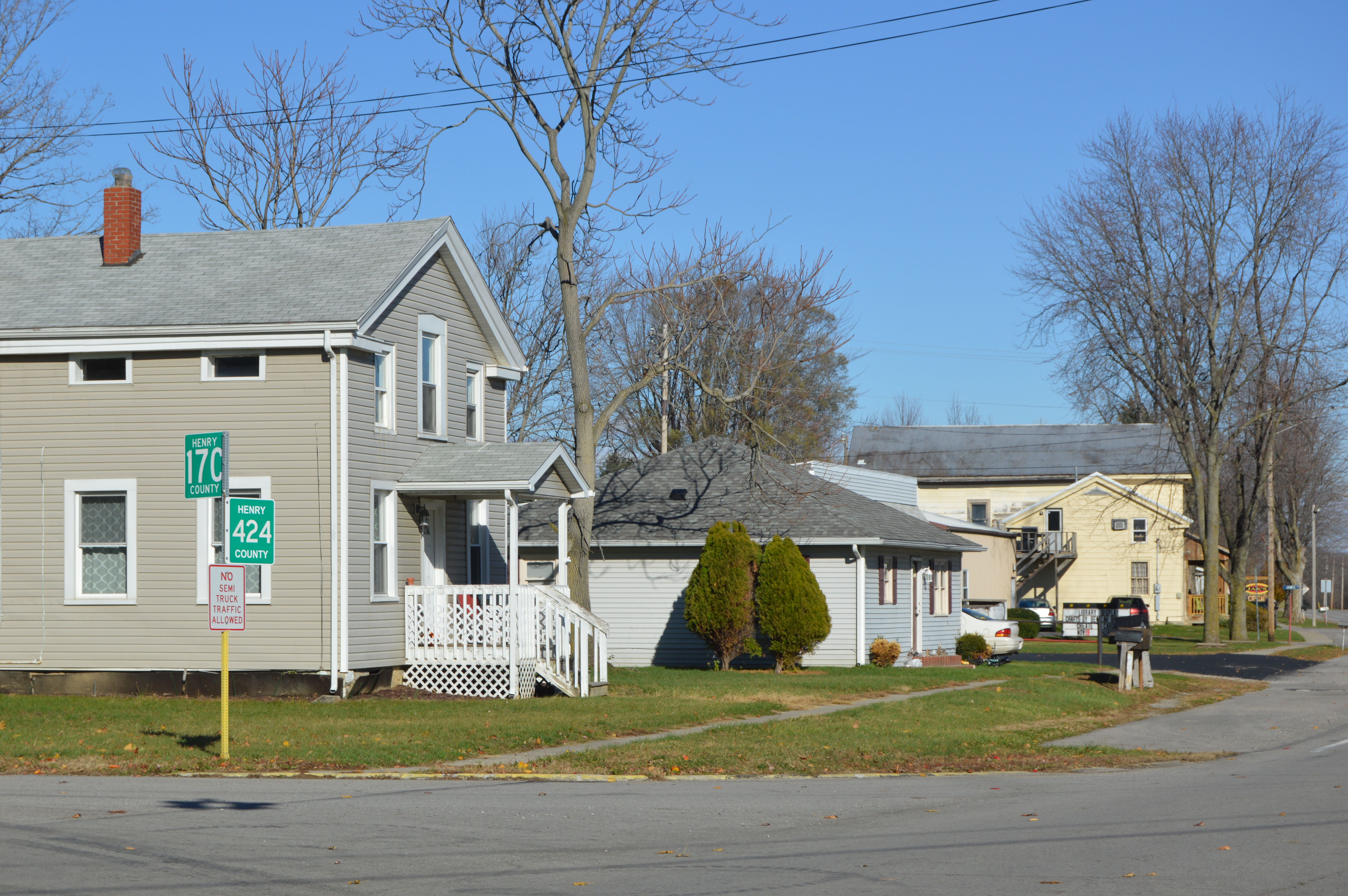 Houses on the northern side of High Street east of the Henry Street intersection in Florida, Ohio, United States.